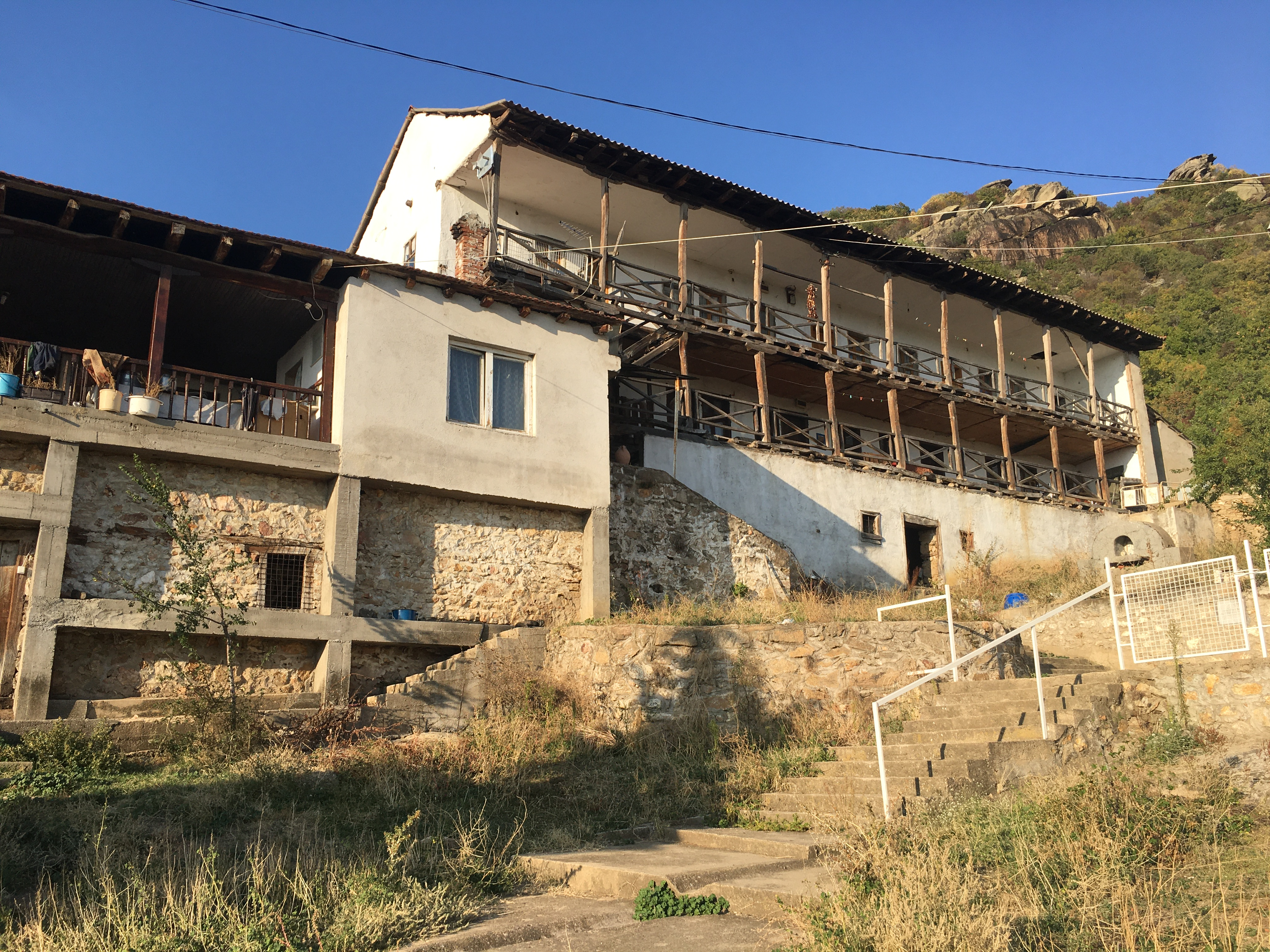 A konak in the Slepče Monastery